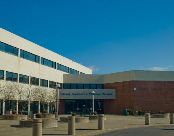 Ashland Community and Technical College's main entrance.